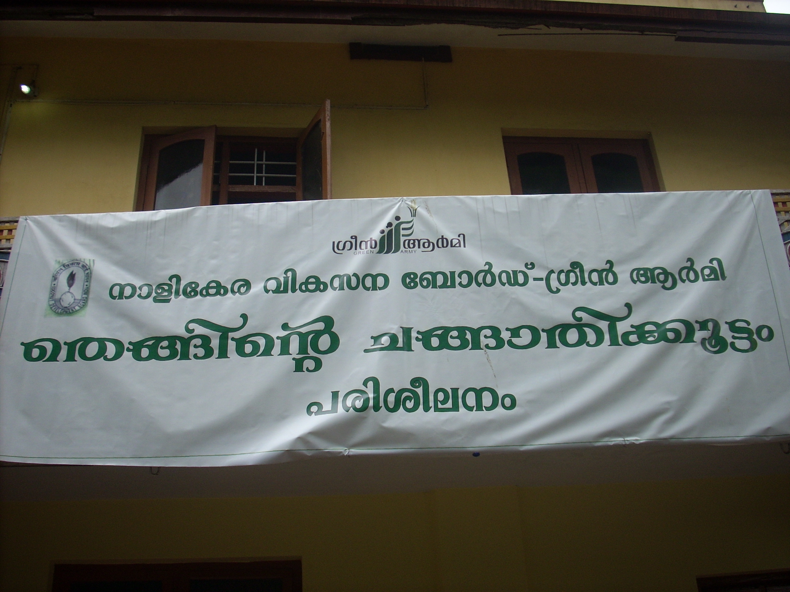 Friends of Coconut Tree - Coconut Climbing training program by Coconut Development Board. Thrissur Venu Program: Wadakkanchery, Mundathicode, (Green army)